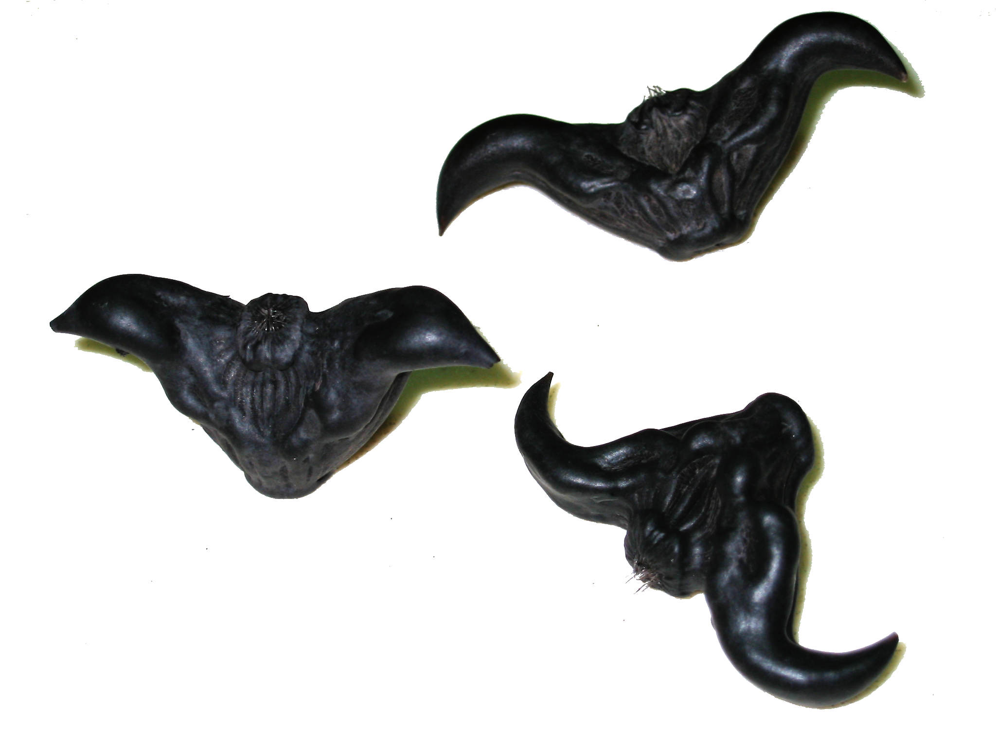 Three seeds of Trapa Bicornis (water caltrop).